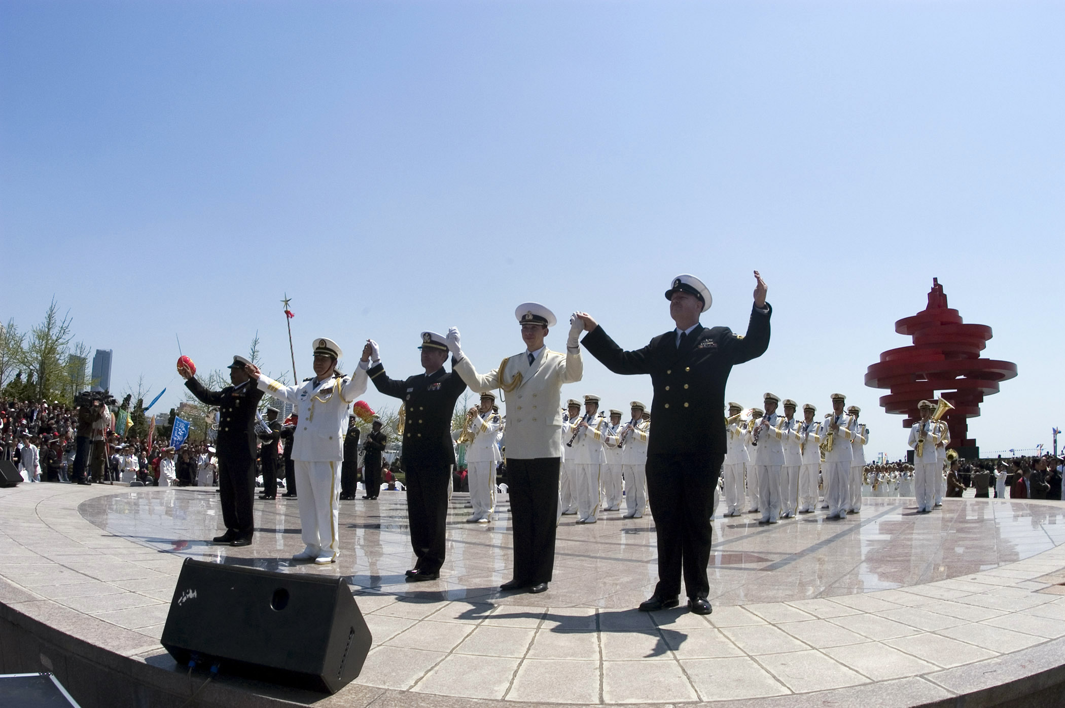 QINGDAO, People's Republic of China (April 21, 2009) Senior Chief Musician Adam Vincent, right, joins hands with bandleaders from China, Russia, India, and South Korea as the People's Liberation Army Navy band performs in the background. Bands from nations participating in the 60th anniversary celebration of the founding of the People's Liberation Army Navy performed for Chinese citizens. The forward-deployed guided-missile destroyer USS Fitzgerald (DDG 62) is in Qingdao to participate in the International Fleet Review with units from 20 other nations. (U.S. Navy photo by Mass Communication Specialist 2nd Class Matthew R. White/Released)